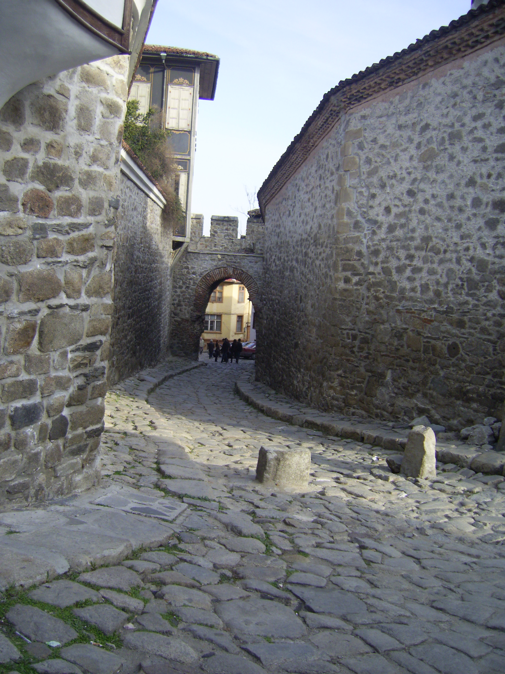 A small street with the Hissar gate, visible in the distance - the Old Town, Plovdiv, Bulgaria.